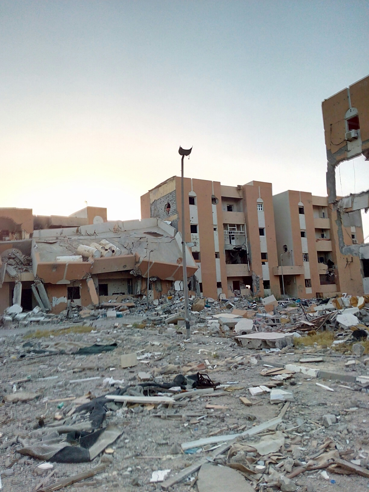 images a desolation in Sirte, Coastal in Libya after battles with isis This is an image of "African people at work" from Libyan Arab Jamahiriya